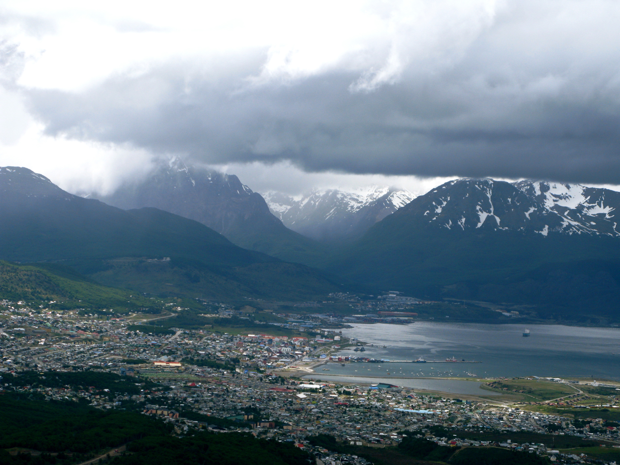 Ushuaia, Tierra del Fuego Province (Argentina).